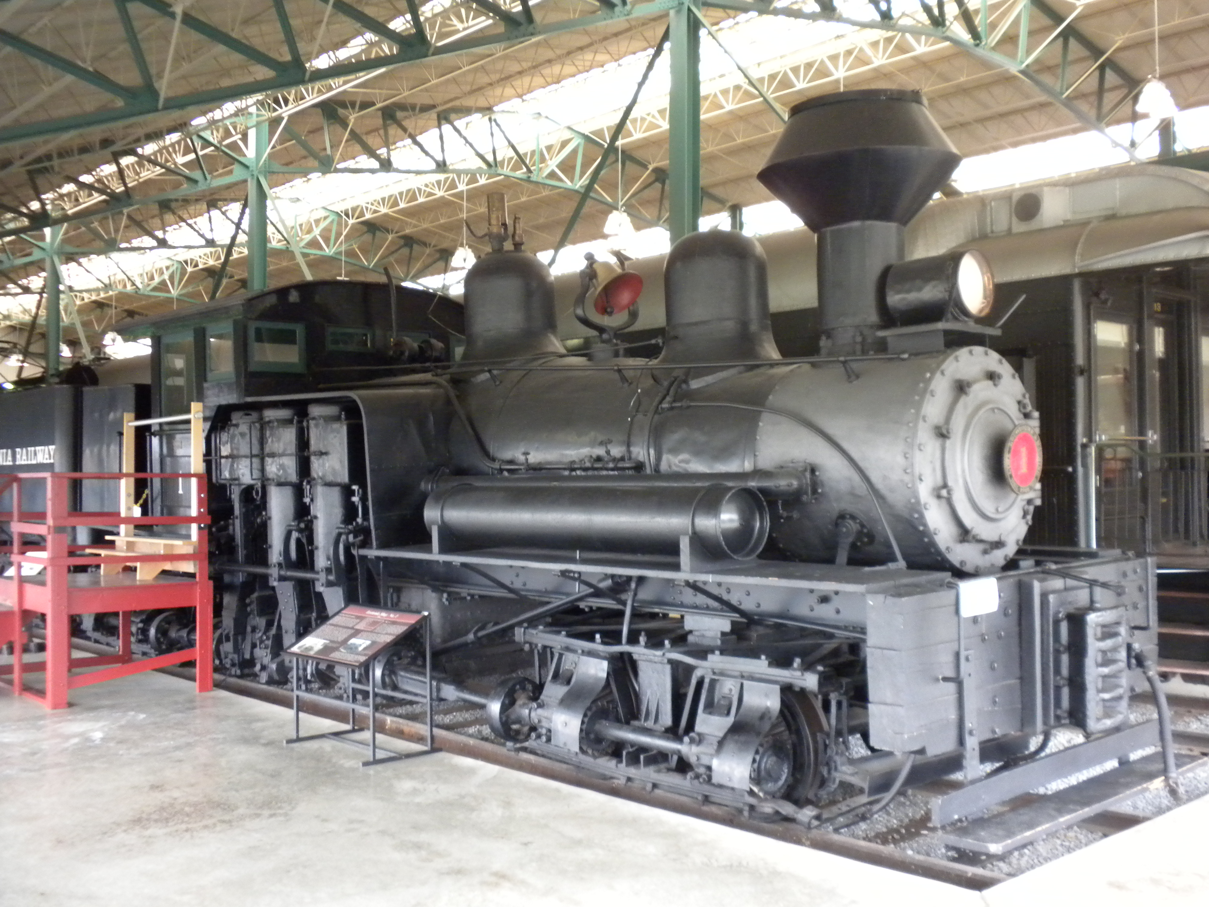 Shay No. 2 gear driven steam engine at the Railroad Museum of Pennsylvania, east of Strasburg, PA. Built by Lima Locomotive and Machine Co, Lima, OH in December 1906, retired c. 1964, Class 65-3 (65 ton-3 truck) wighing 137,000 lbx, length 52 ft. 6 inches, tractive effort 29,800 lbs, Fuel capacity 2.5 cords of wood or 5 tons of coal, water 3,000 gallons, boiler pressure 200 psi. 77 engines of this type were built. Though the museum calls this the Leetonia No. 1, it was actually owned by the Enterprise Lumber Company of Sims, LA; Cherry River Boom and Lumber Co. in WV; Beech Mountain Roalroad and Cook-Natwick Co, ending its career in 1964 as the Ely-Thomas Lumber Company No. 2 (in West Virginia)